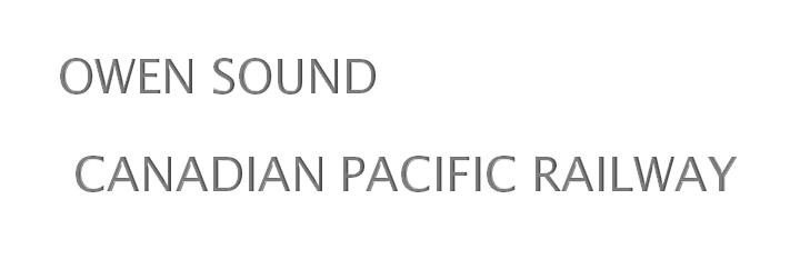 Font showing how the "Owen Sound" and "Canadian Pacific Railway" would look. 20th Century Mono font with some shading added.